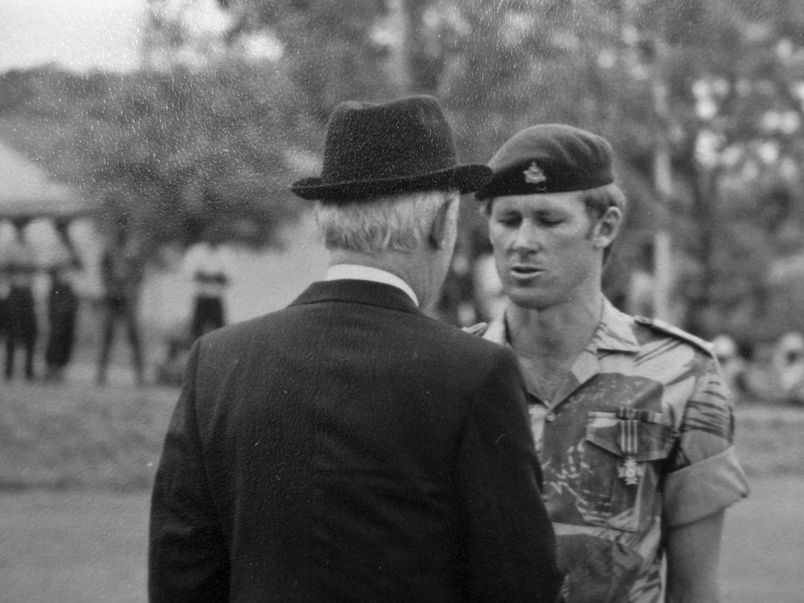 Acting Lieutenant Nigel John Theron receives the Bronze Cross of Rhodesia from President John Wrathall, on 15 October 1976